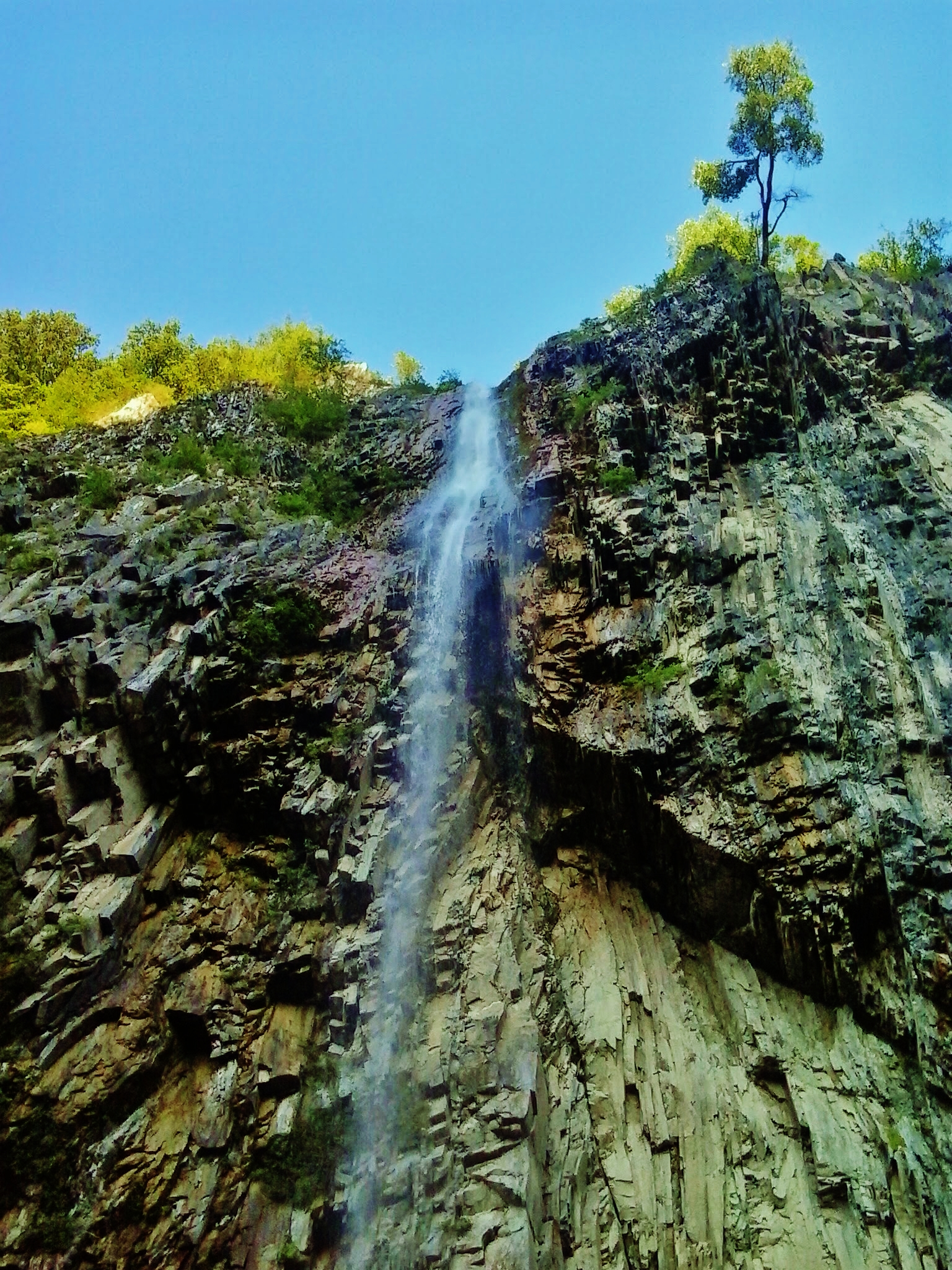 Ramramay waterfall. Ilisu State Reserve 7